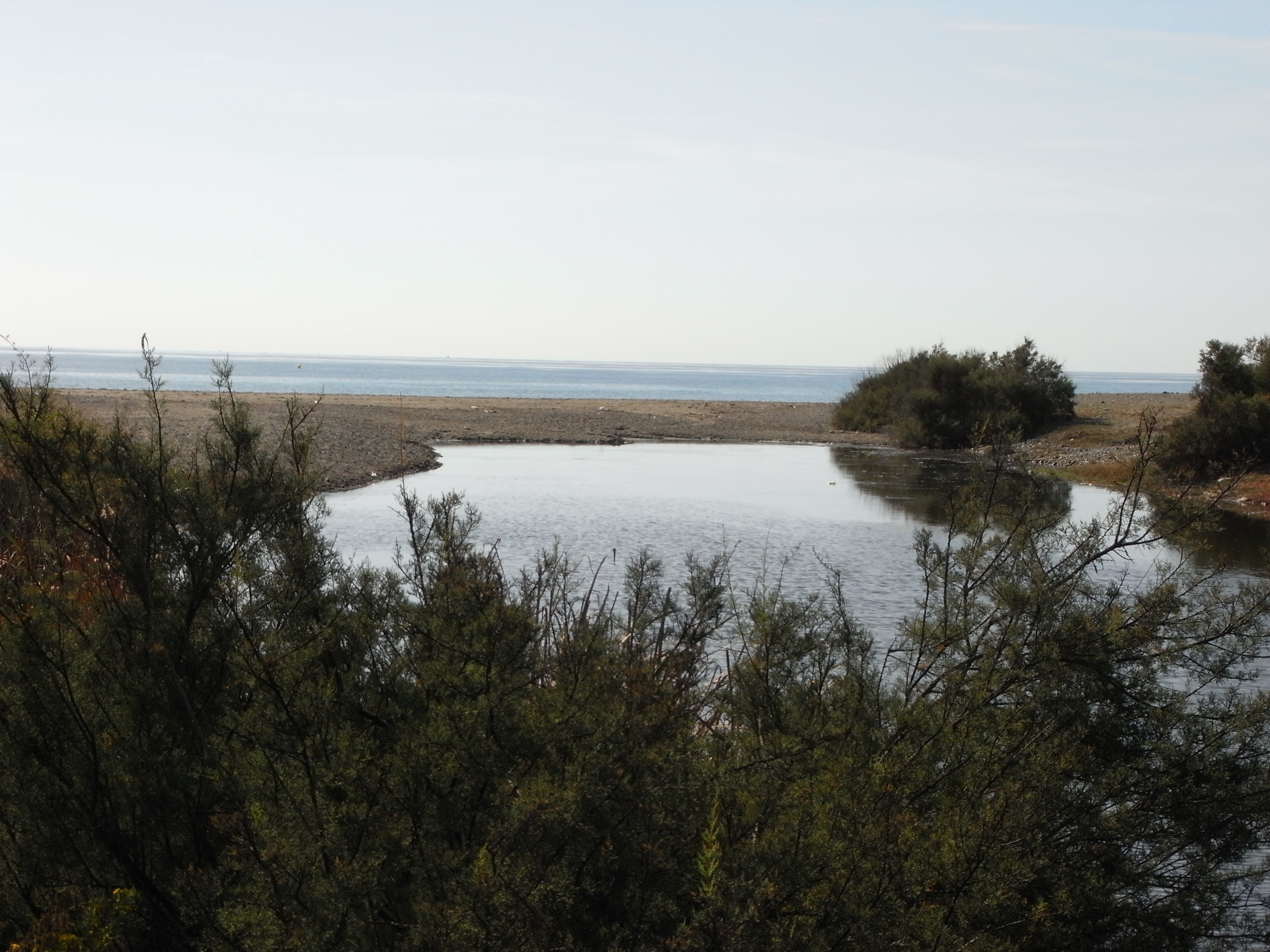 Mouth of the Guadalmina River in Southern Spain (view to the Mediterranean